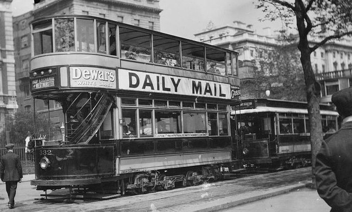 London tram cars #332